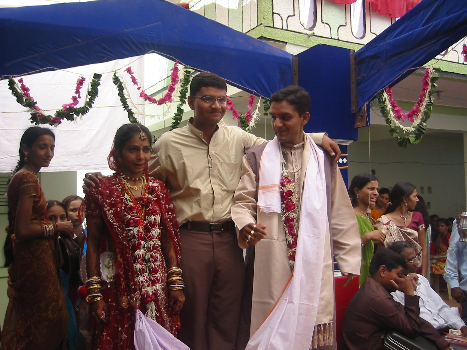 Hindu wedding ("Var Mala") with traditional dress, Ahmedabad, India. The cloth tied between the husband and wife (godh bandhan) represents the life-long link between the couple created by the marriage. The man between the couple is a brother of the wife, who traditionally presents his sister to the husband.